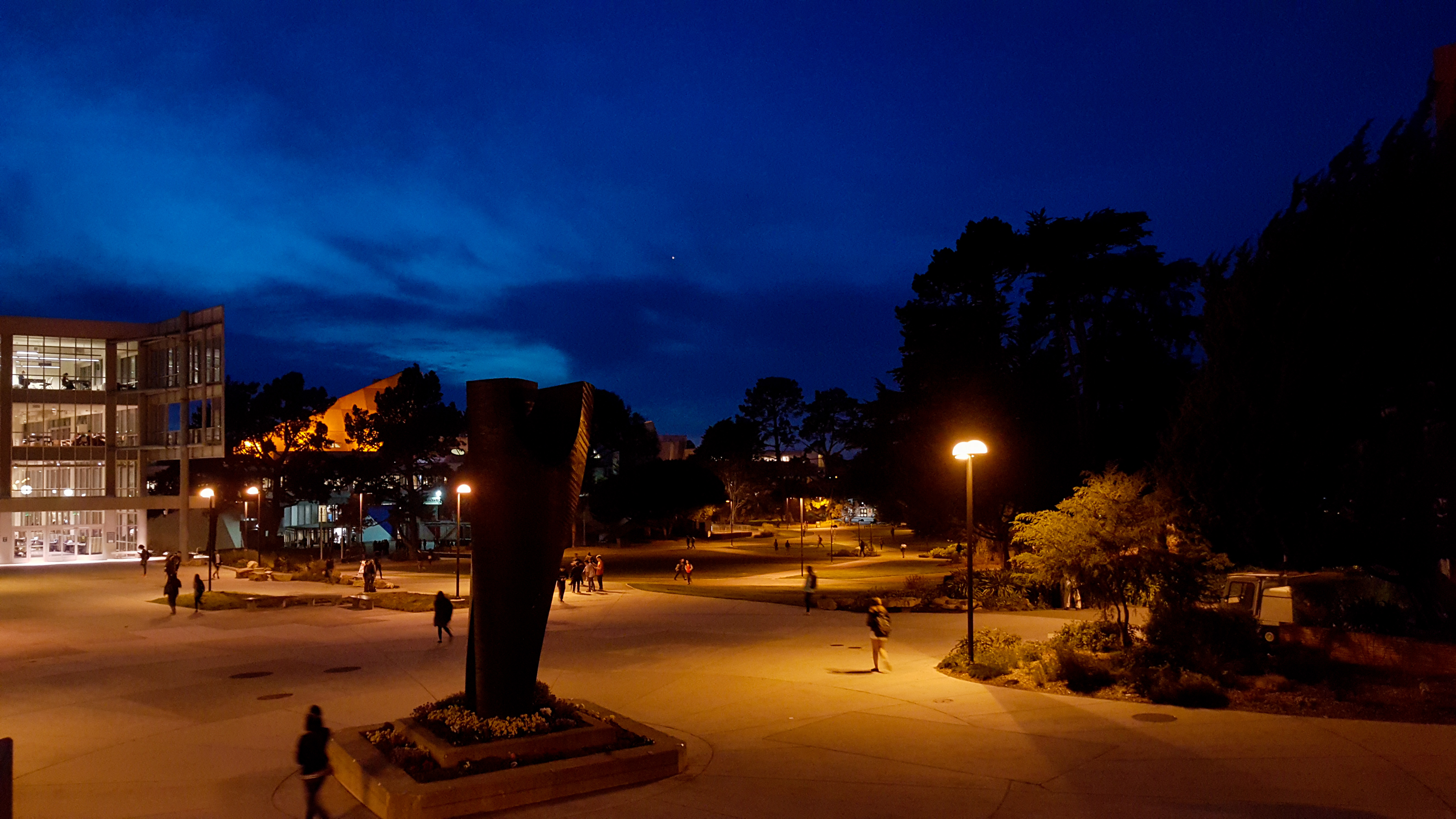 Shot on a Galaxy S6 phone, post processed by Adobe Lightroom